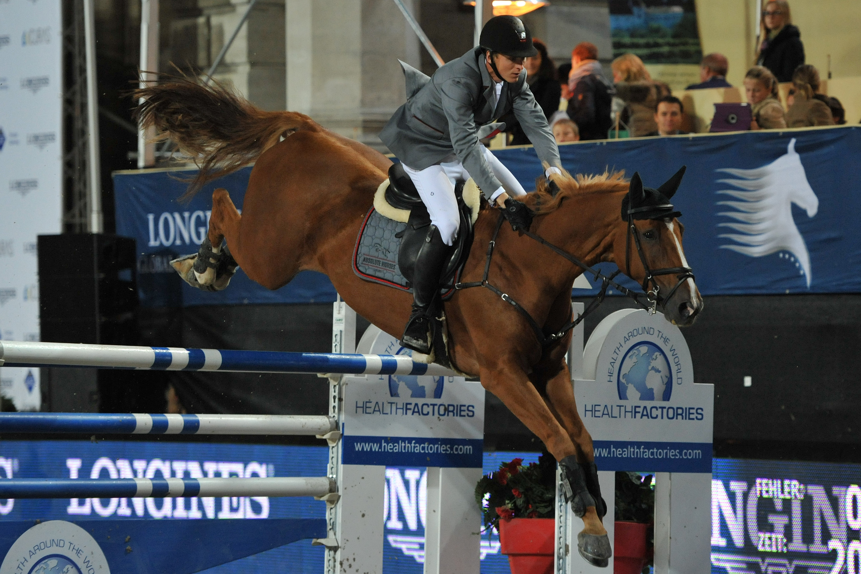 Vienna Masters am 21. September 2013 Longines Global Champions Tour Andreas Schou (DEN) auf Allerdings